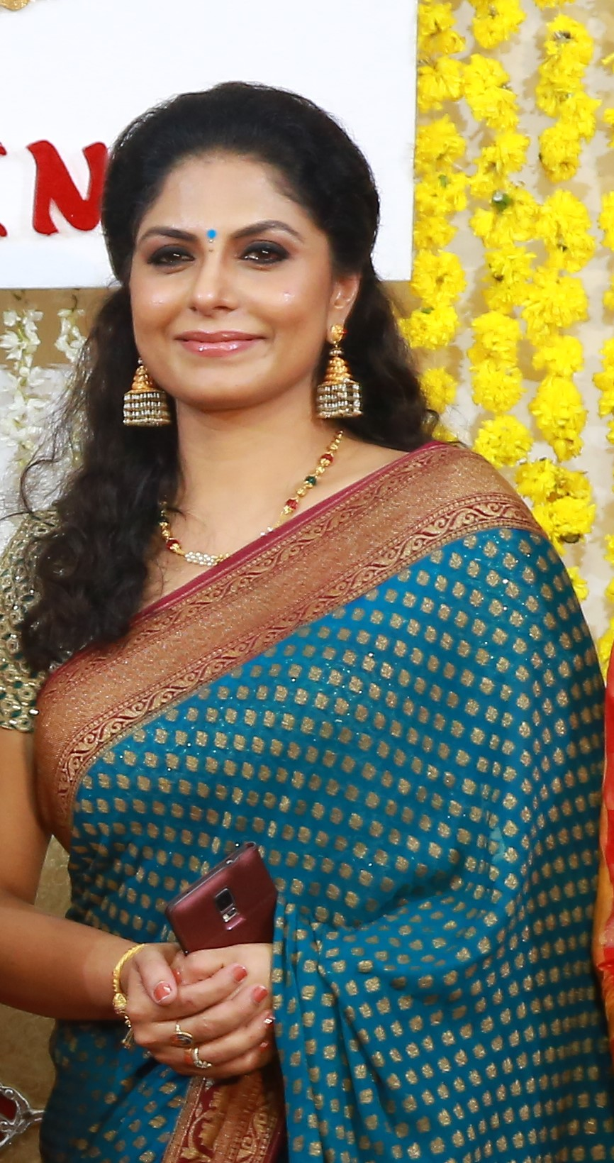 At a wedding ceremony